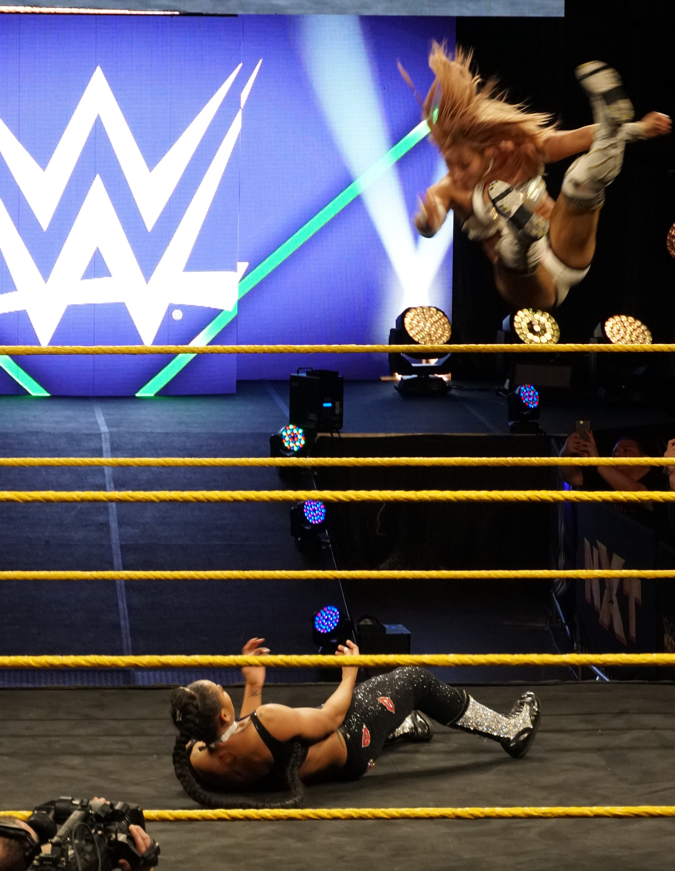 NOLA 2018 - WWE Axxess - Thursday - Kairi Sane Vs Bianca BelAir Kairi Sane def. Bianca BelAir ( Deux semaines a Nola pour la ville et pour WWE Wrestlemania XXXIV Two weeks Nola for the city and for WWE Wrestlemania XXXIV )